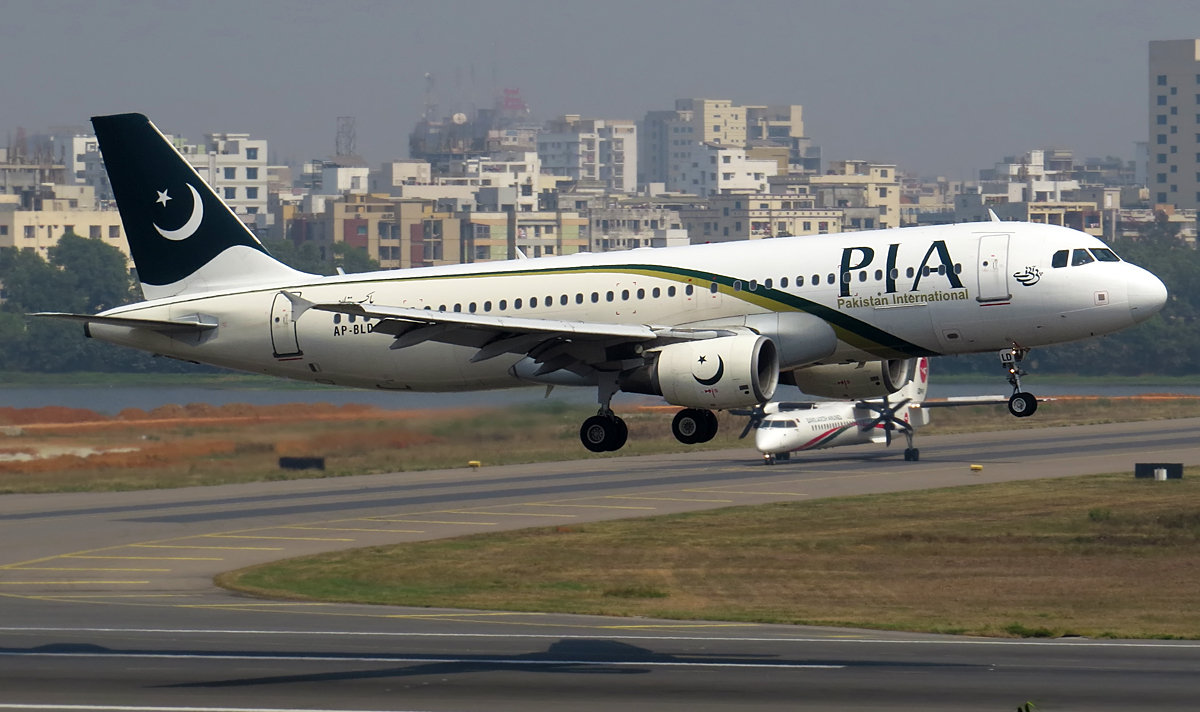 VGHS 20-02-16 | Keeping S2-AGR on hold.